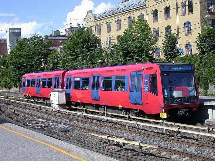 Oslo Sporveier. Majorstuen stasjon. Ny T-banevogntype T2000, vogn 2007 og 2008 på linje 1 til Frognerseteren. Politihøgskolen. Bildet tatt en gang mellom 1994-2000.